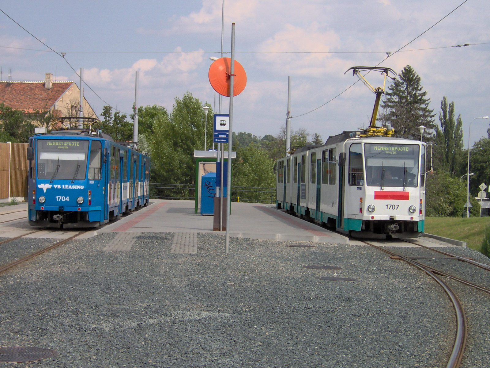 Tram terminus in Brno-Líšeň with KT8D5 trams